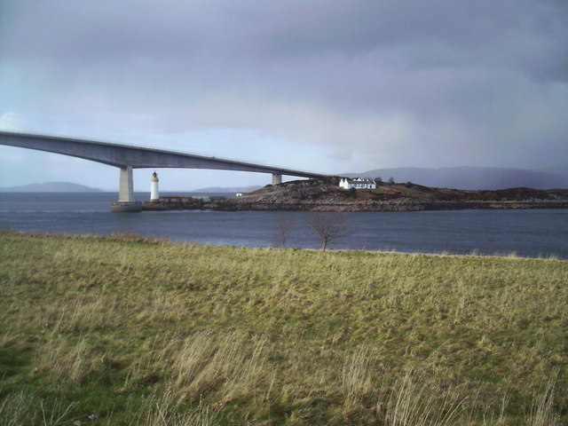 Kyleakin Lighthouse. On the island of Eilean Ban and under the new Skye bridge, as seen from the north shore road, Kyleakin.